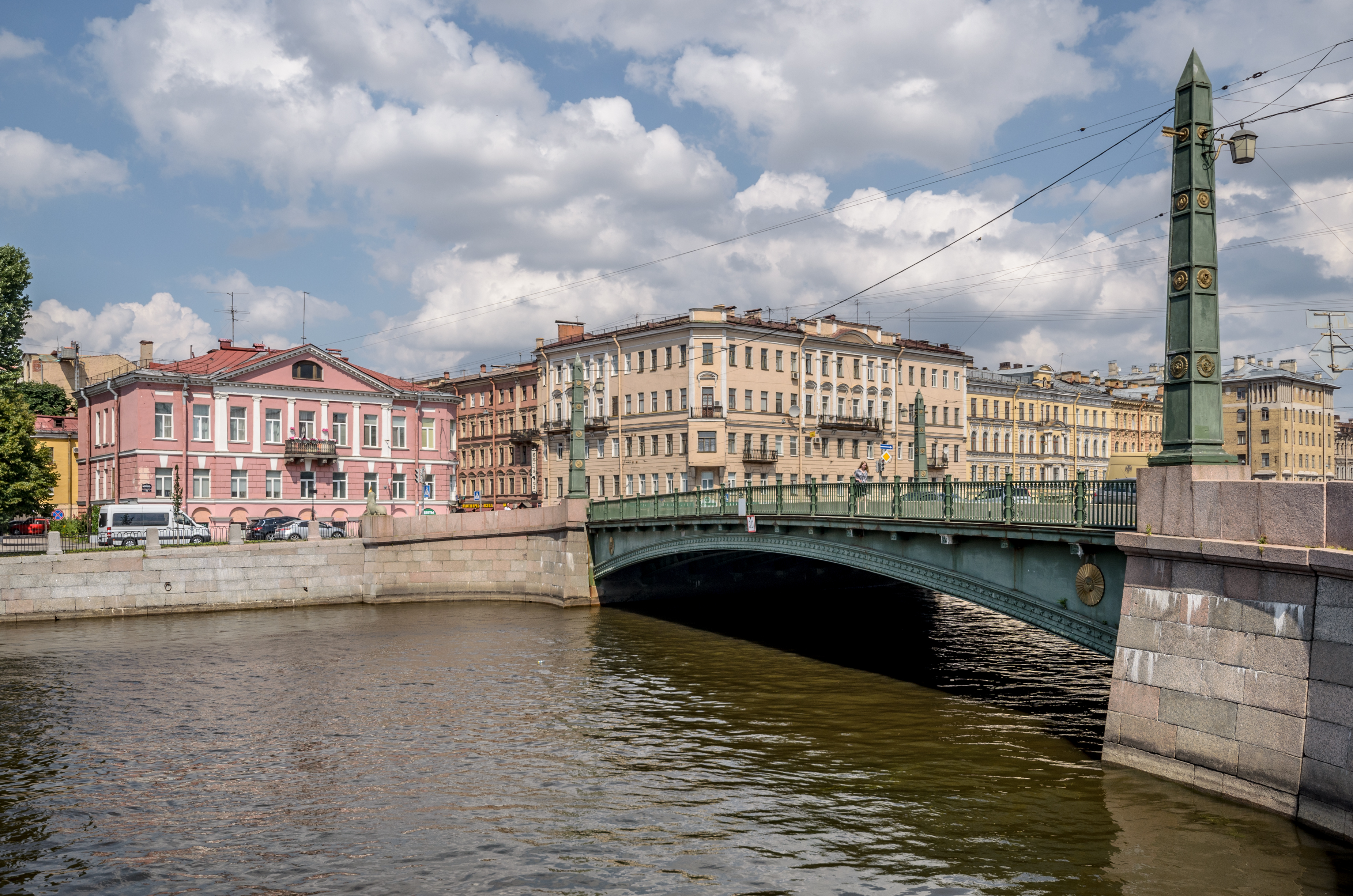 Egipetsky Bridge in Saint Petersburg